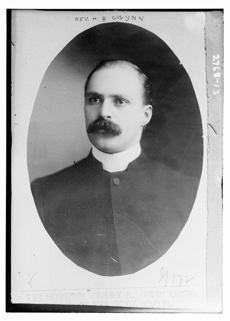 Bain News Service,, publisher. Rev. Herbert Britton Gwyn in 1913 [no date recorded on caption card] 1 negative : glass ; 5 x 7 in. or smaller. Notes: Title from unverified data provided by the Bain News Service on the negatives or caption cards. Forms part of: George Grantham Bain Collection (Library of Congress). Format: Glass negatives. Repository: Library of Congress, Prints and Photographs Division, Washington, D.C. 20540 USA, General information about the Bain Collection is available at Persistent URL: Call Number: LC-B2- 2768-13